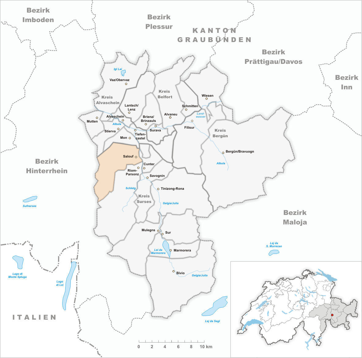 Municipality Salouf